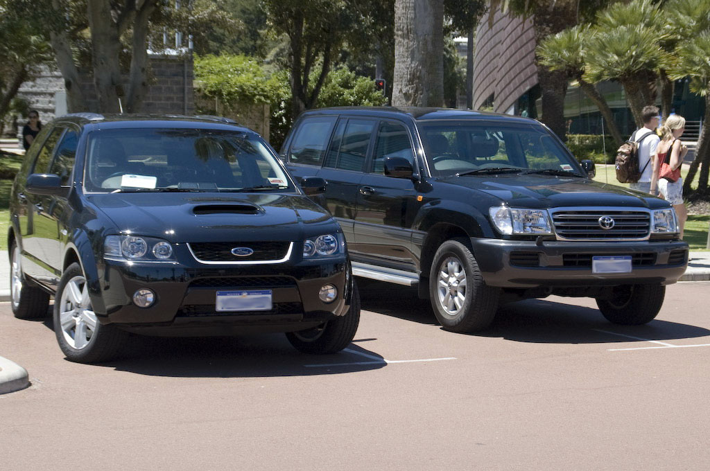 Western Australian Police unmarked Ford Territory and Toyota LandCruiser.